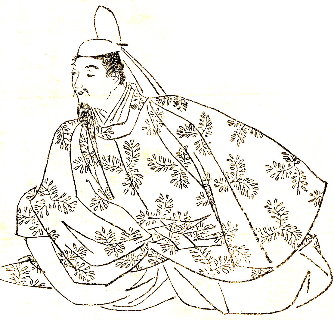 Fujiwara no Yoshifusa (藤原良房) was the first of the great regents from the Fujiwara clan.This picture was drawn by Kikuchi Yosai（菊池容斎） who was a painter in Japan.